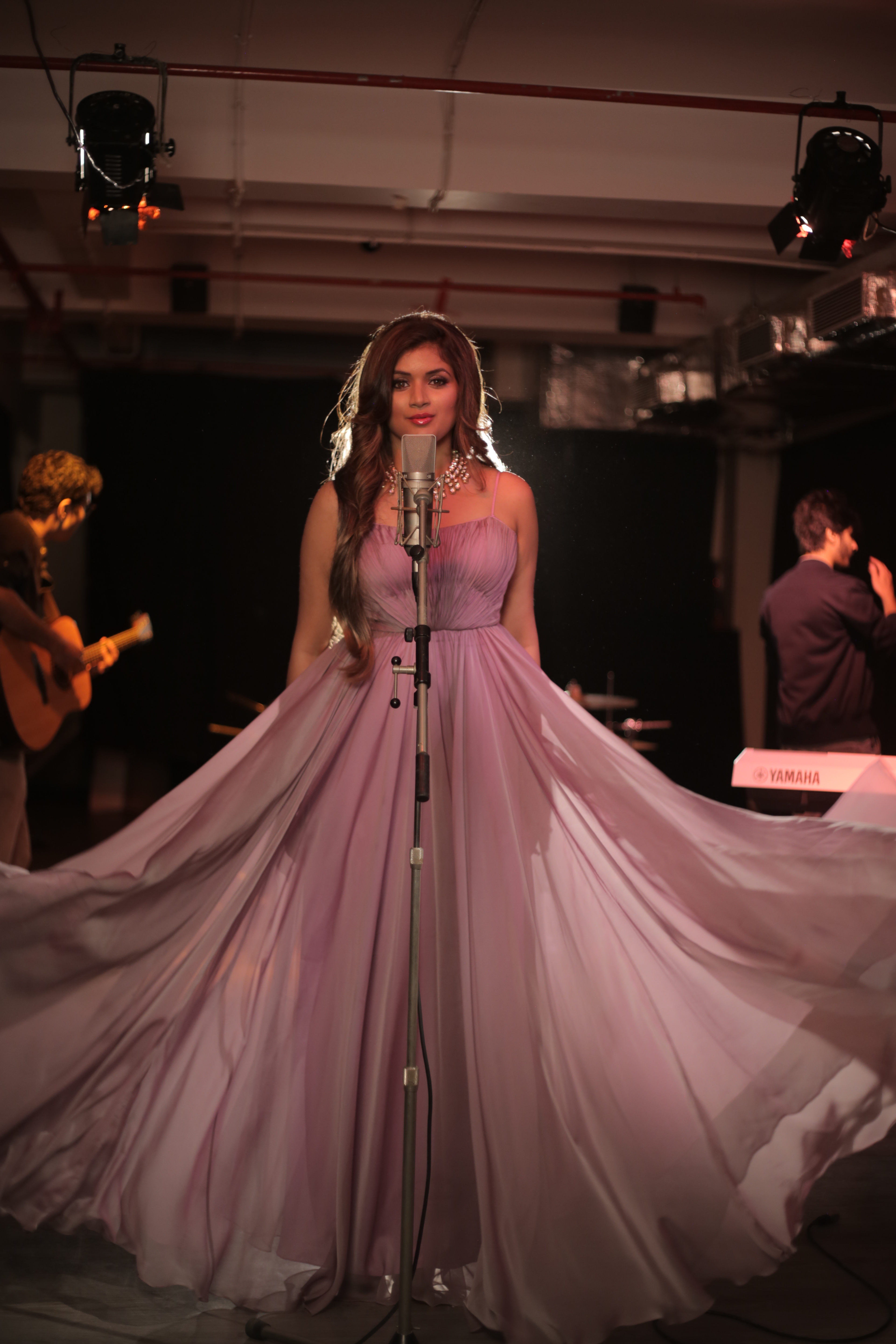 Shipra Goyal